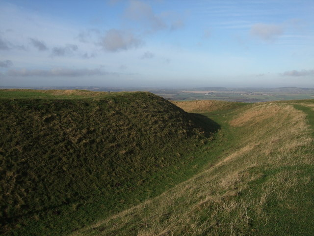 Atlas of Hillforts 0146 Uffington Castle Just off the Ridgeway National Trail